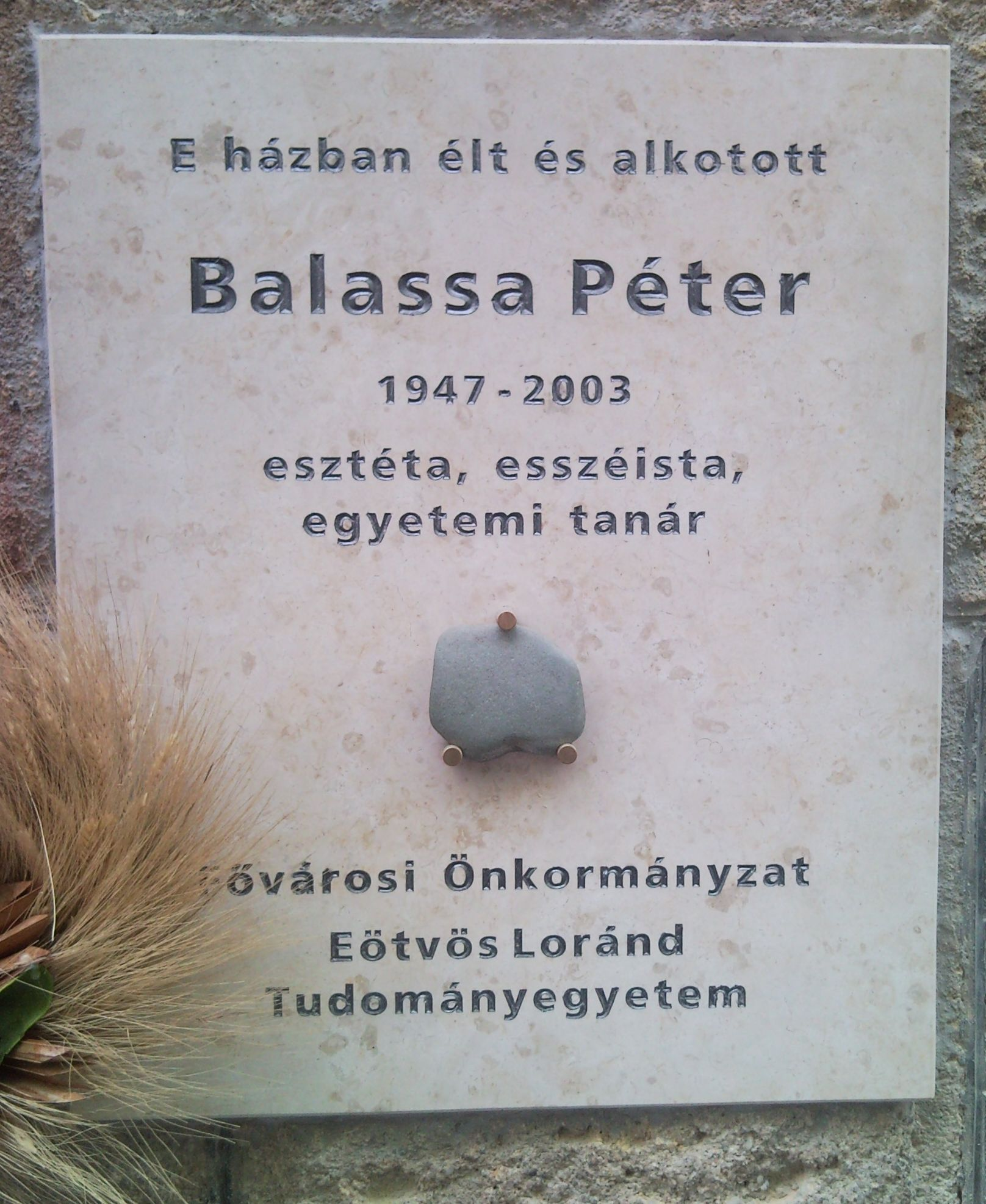 Péter Balassa commemorative plaque in Budapest District I, Gellérthegy Street No 31